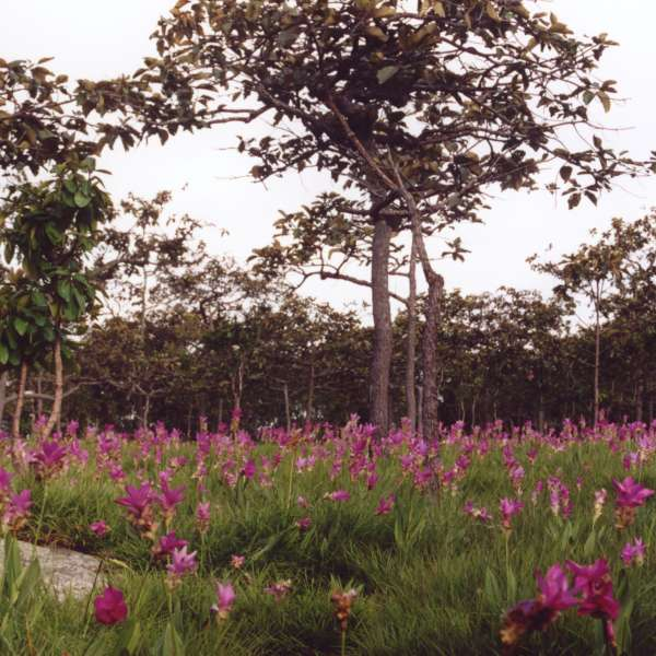 Siamese Tulips field in the Pa Hin Ngam national park, Chaiyaphum province, Thailand. Photo taken by User:Ahoerstemeier on July 14, 2003.